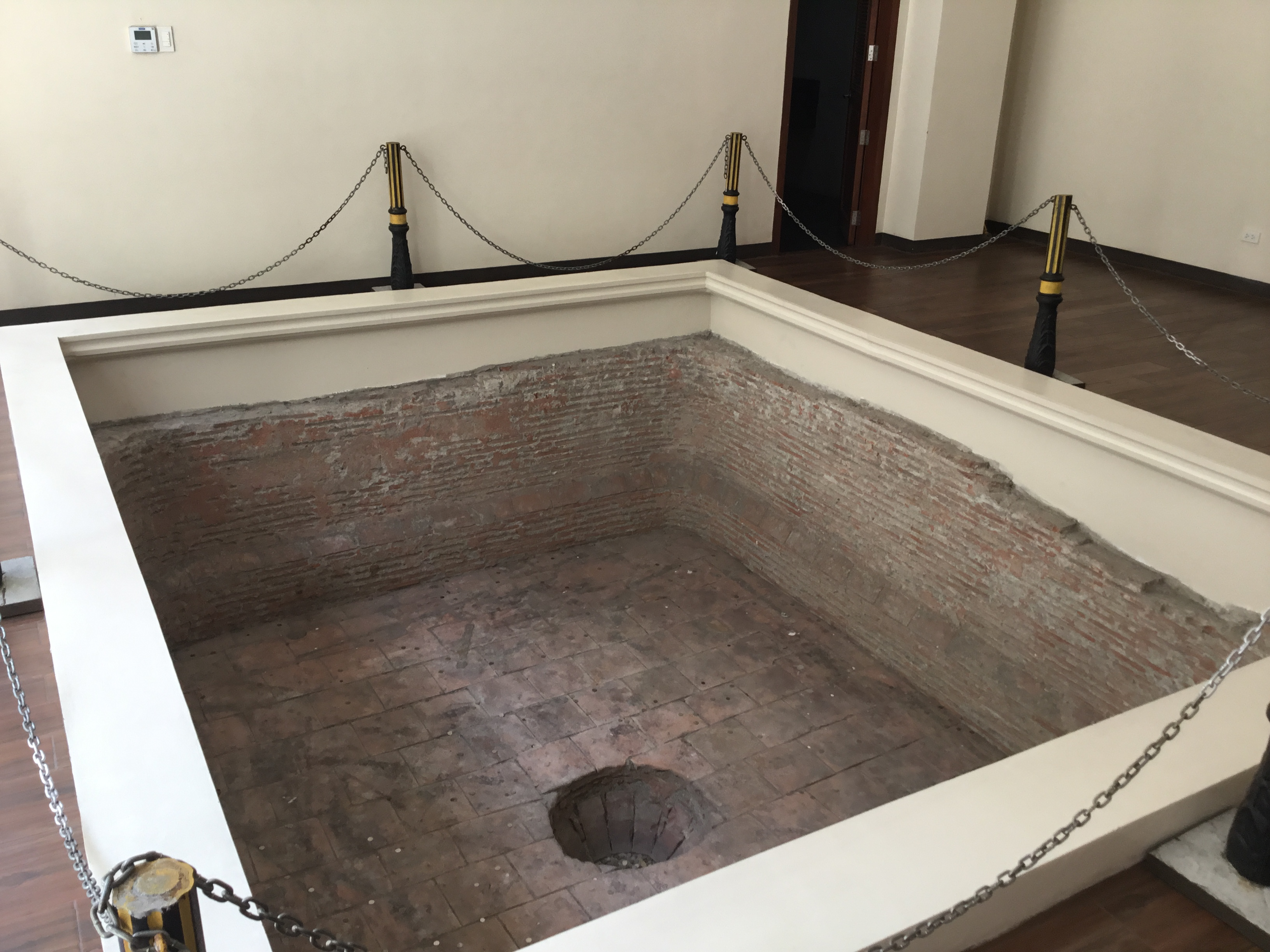 Casa Misión (Museo de Intramuros) interior, old foundations